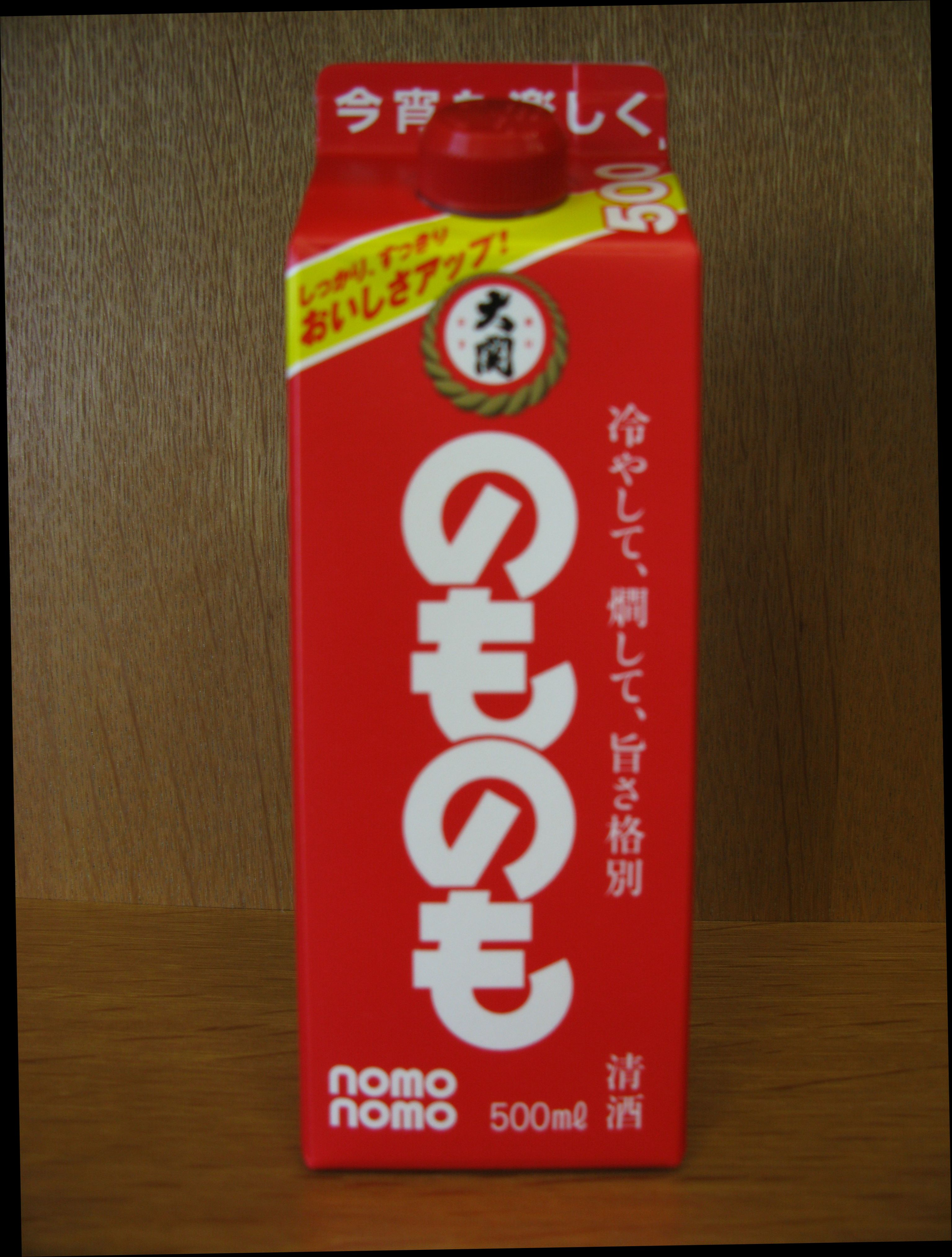 A paper can of sake